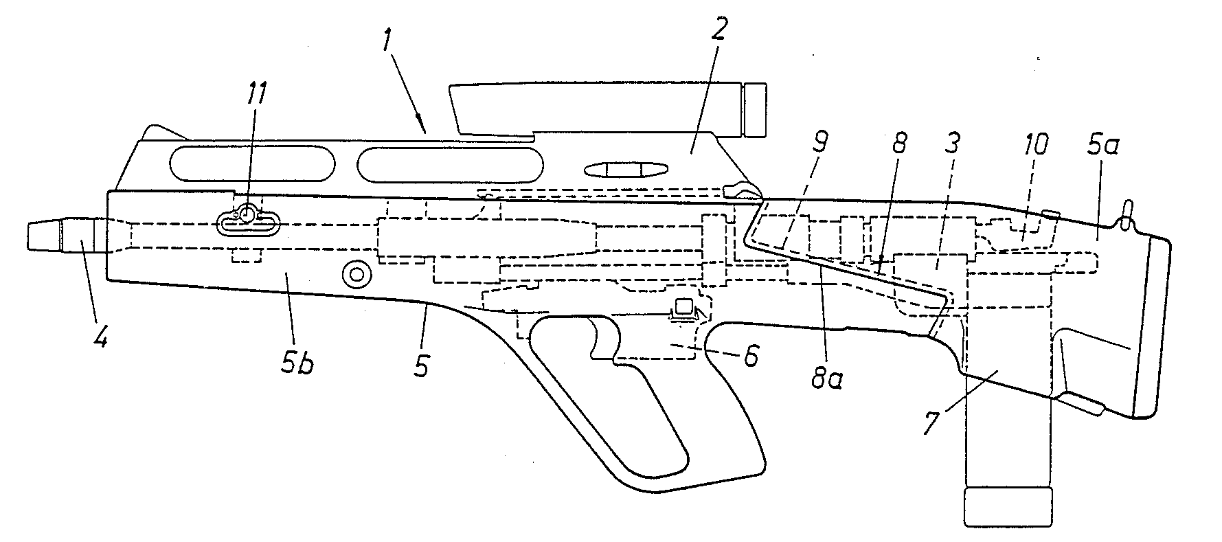 Steyr Advanced Combat Rifle entry